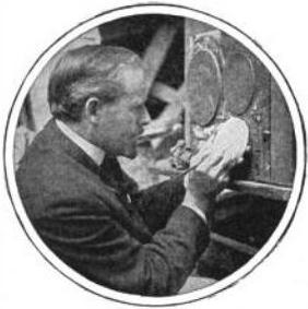 Photograph of Adolph Alexander Weinman